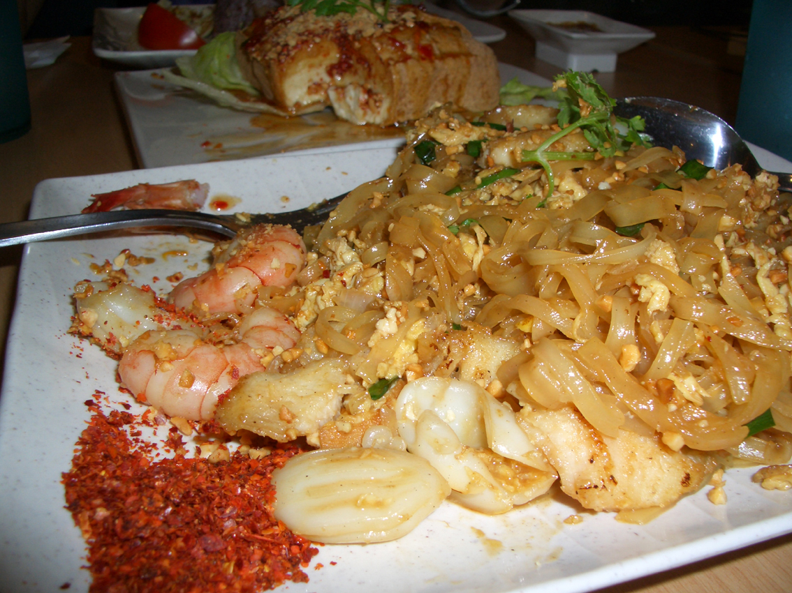 Pad Thai. Thai Express.